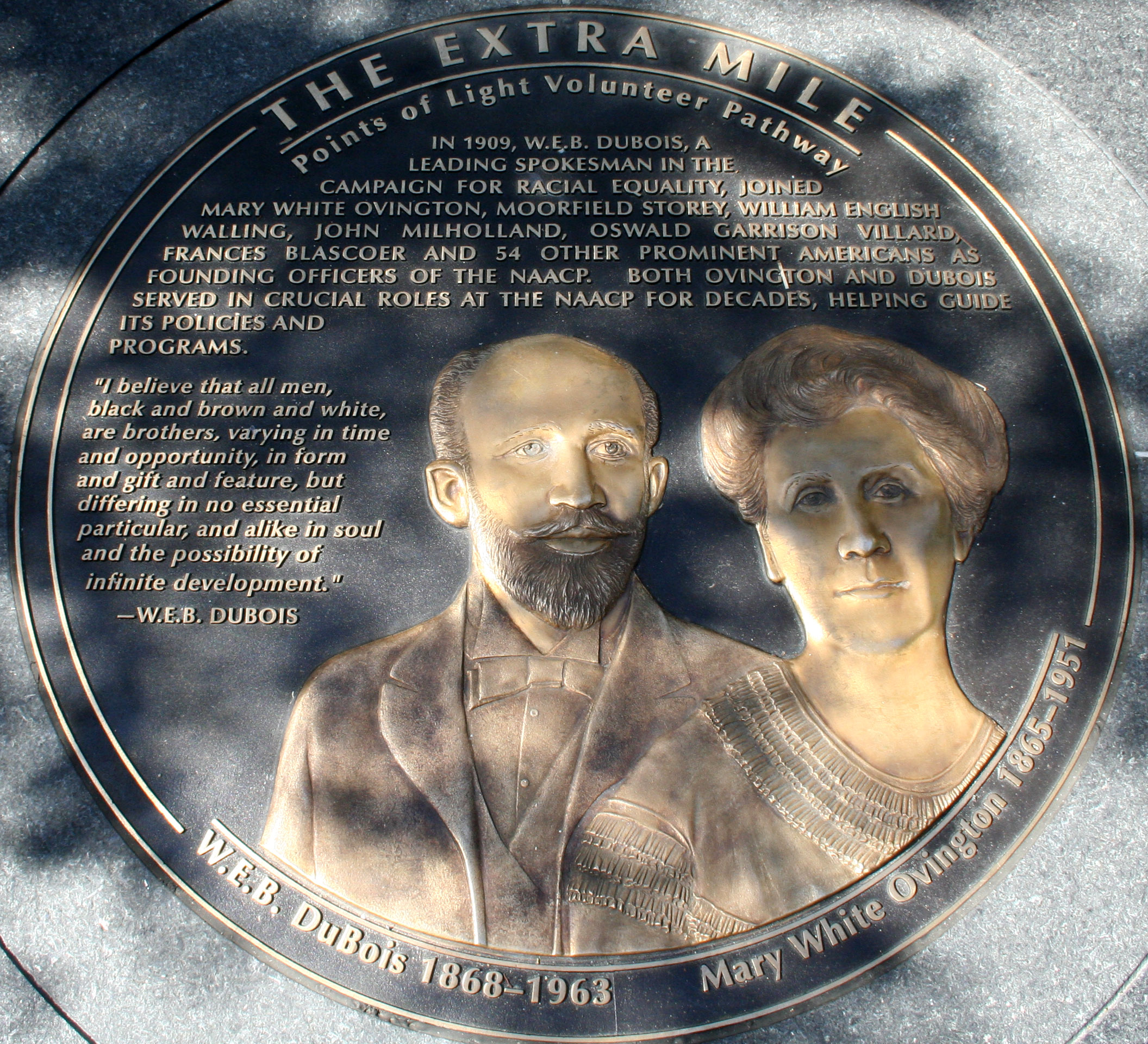 William Edward Burghardt Du Bois (pronounced [du'bojz]) (February 23, 1868 – August 27, 1963) was a socialist, civil rights activist, sociologist, educator, historian, writer, editor, poet, and scholar. He became a naturalized citizen of Ghana in 1963 at the age of 95. Mary White Ovington (born April 11, 1865 in Brooklyn, New York - died July 15, 1951) a suffragette, socialist, unitarian, journalist, and co-founder of the NAACP.